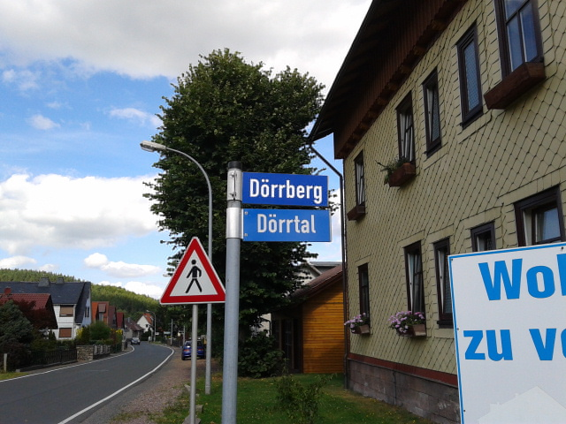 Street sign Dörrberg and Dörrtal, Gräfenroda in Thuringia, Germany